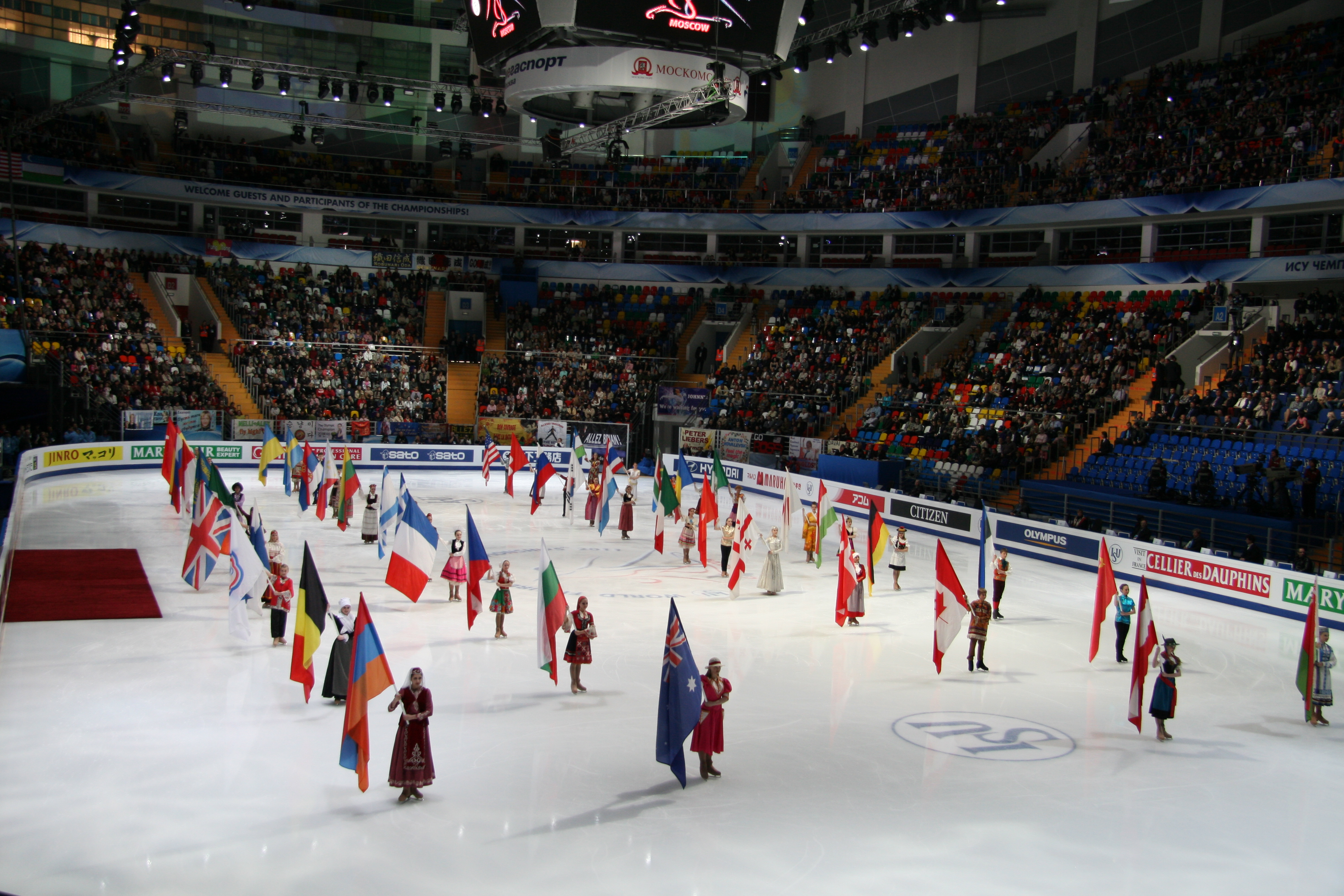 The opening ceremony of the 2011 World Figure Skating Championships dedicated to the tragedy in Japan.